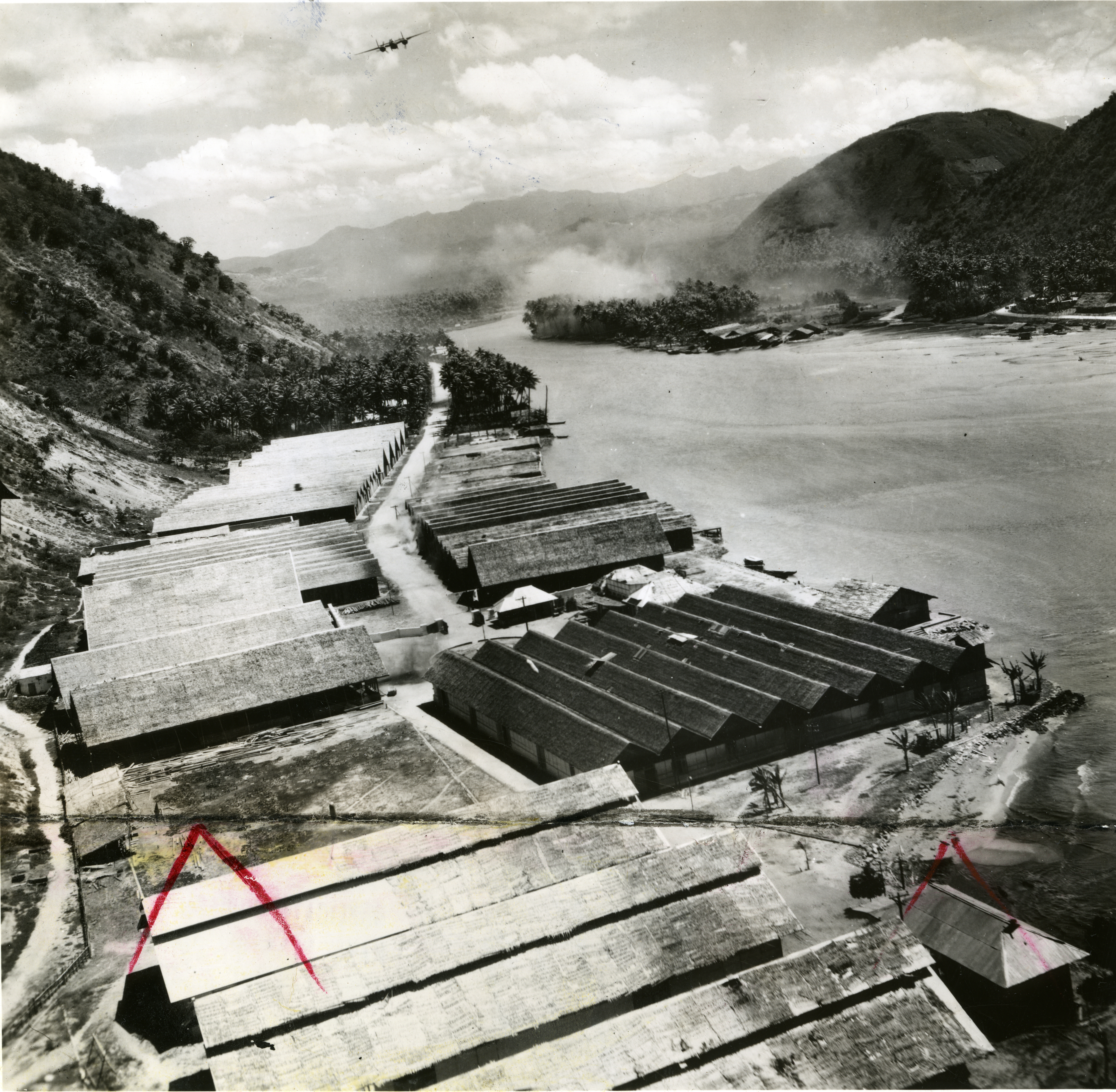 U.S. planes attack Japanese-held Celebes town A U.S. Army Air Forces North American B-25 Mitchell bomber of the Fifth U.S. Army Air Force soars toward the target area in the Japanese-held town of Gorontalo on the island of Celebes (Sulawesi) in the Netherlands East Indies. The attack centered on the warehouses, further reducing enemy's supplies in the southwest Pacific area. During September 1944, Fifth Air force planes based in New Guinea paid special attention to the Netherlands East Indies, a major source of Japan's steadily dwindling oil supply.